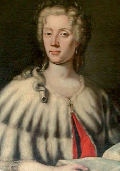 The first woman in the world to earn a university chair in a scientific field of studies